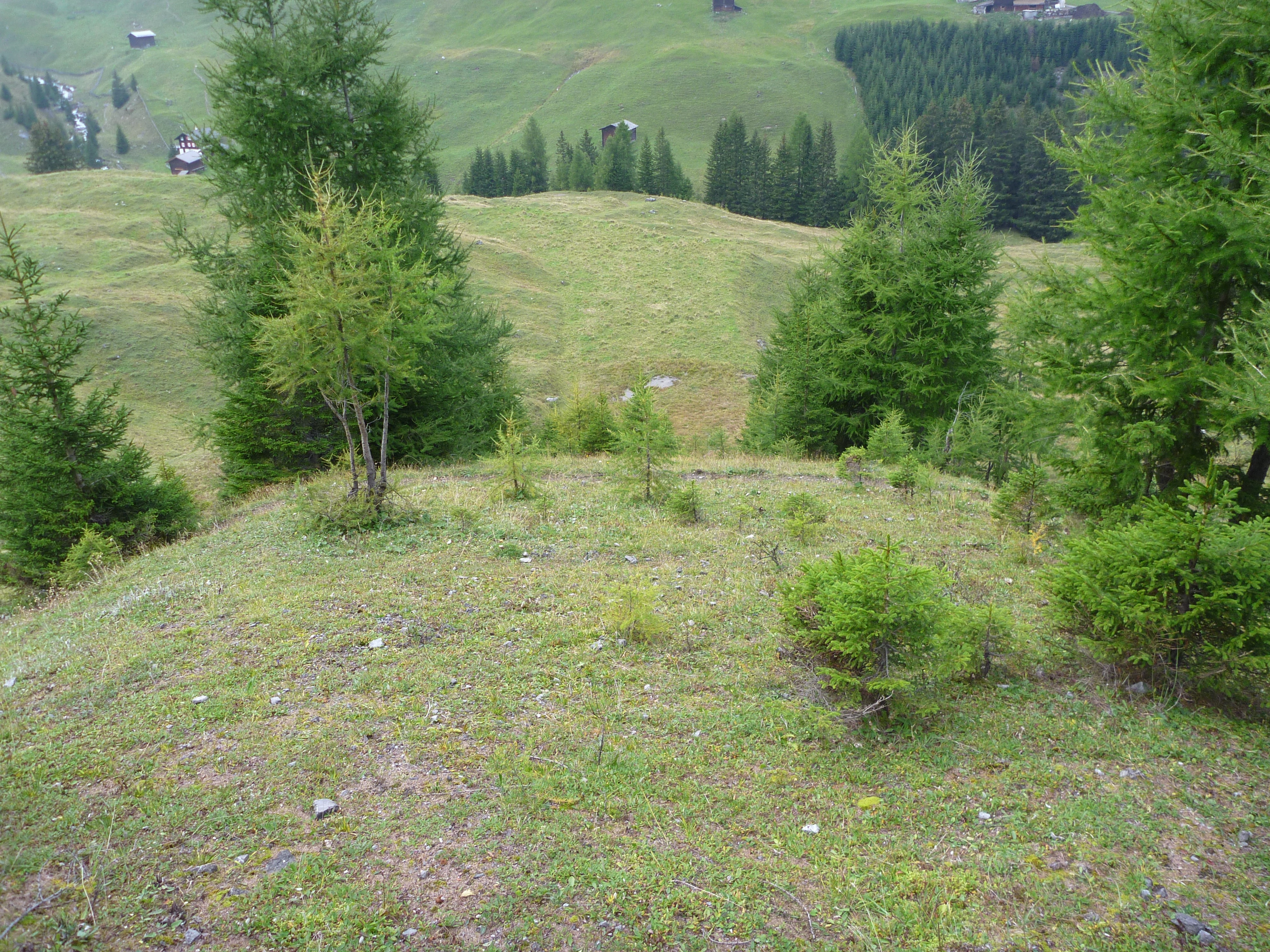 Bärenbadschanze Arosa, view from jump-off platform